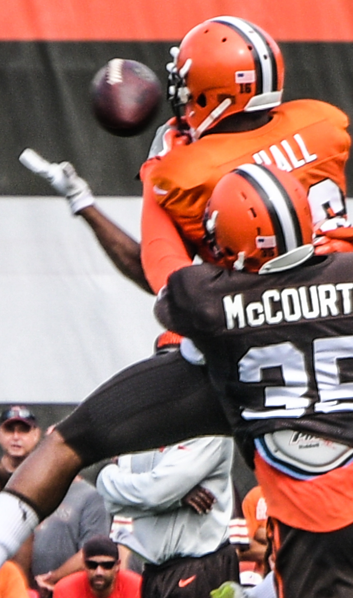 Hall in 2017 training camp